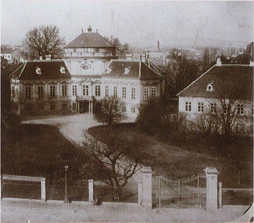 "Palais Baron Pouthon" (Palais Althan-Pouthon), in Wien.